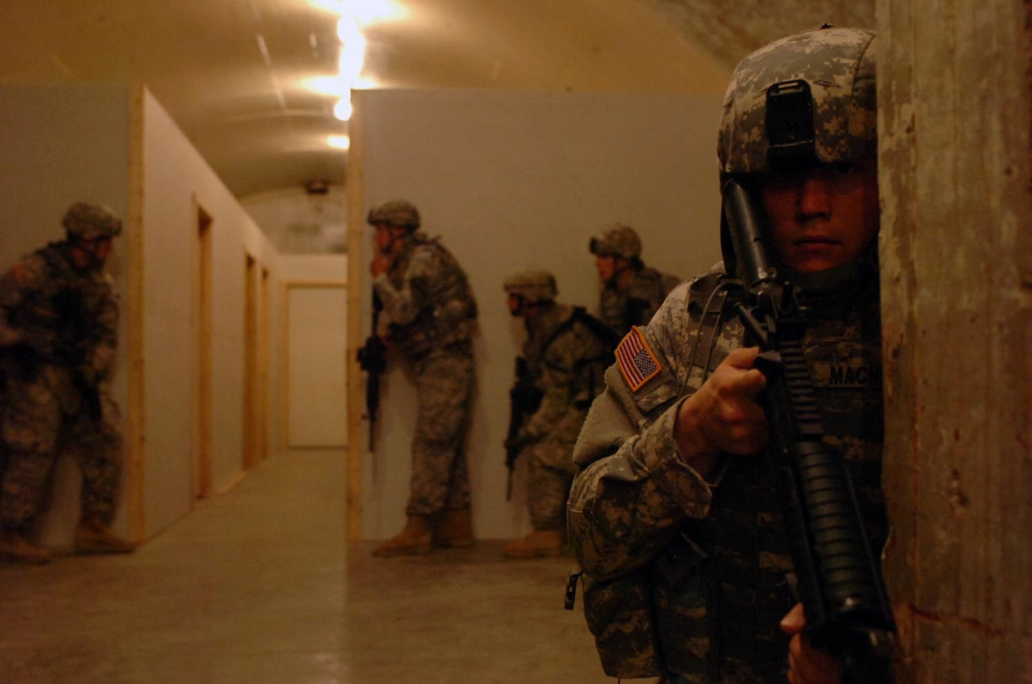 Pfc. Josh Macnicol, a native of St. Louis, pulls guard while his fellow Soldiers with Headquarters and Headquarters Company, 3rd Combined Arms Battalion, 8th Cavalry Regiment, 3rd Brigade Combat Team, 1st Cavalry Division, prepare to clear rooms in an underground training area on West Fort Hood, Texas, April 8. (Photo Credit: Spc. Ben Fox, 3rd Brigade Combat Team, 1st Cavalry Division Public Affairs)